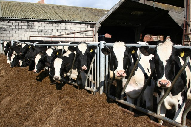 Friesian cows at Grange Farm Dairy herd at Grange Farm, Darlton